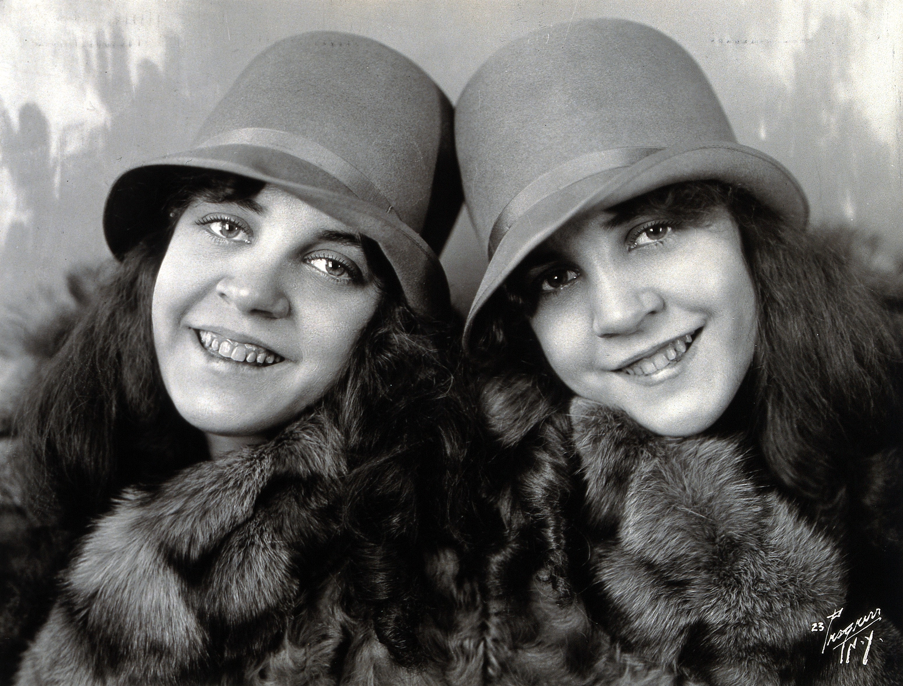 Daisy and Violet Hilton, conjoined twins, head and shoulders, wearing fur coats. Photograph, c. 1927. Iconographic Collections